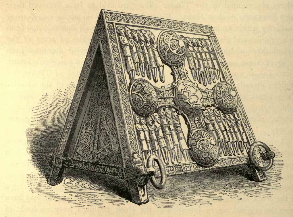 Replica of the "shrine of Saint Manchan", an ancient irish relic.